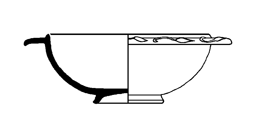 Profile drawing of samian form Curle 11. Late 1st to early 2nd century AD.